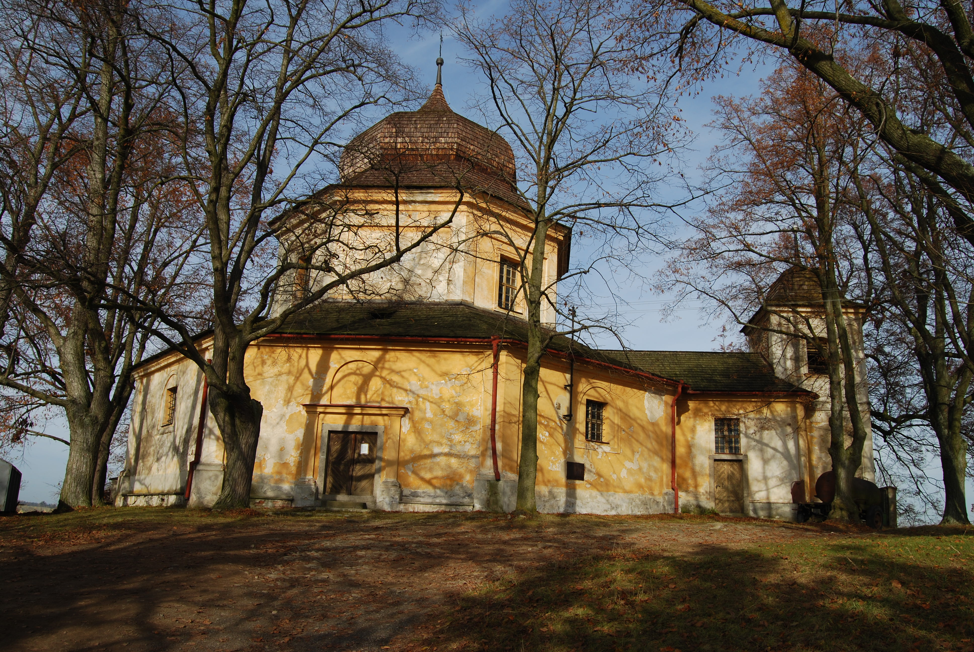 Church of Santa Barbara in Pročevily village in Příbram District, Czech Republic.